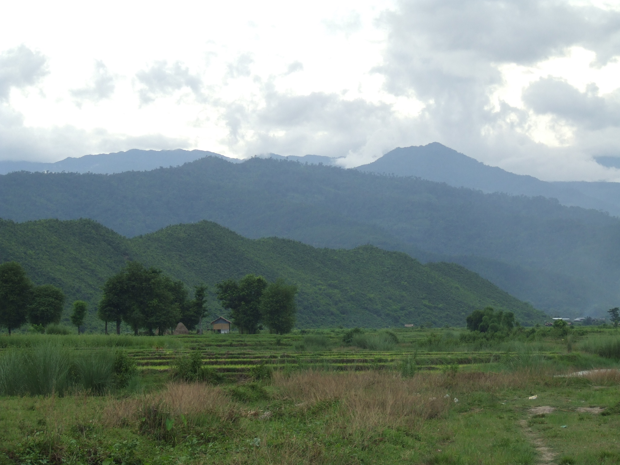 View in or near Kalaymyo